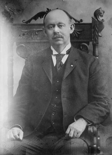 Fletcher Dutton Proctor (1860 – 1911), a Governor of Vermont